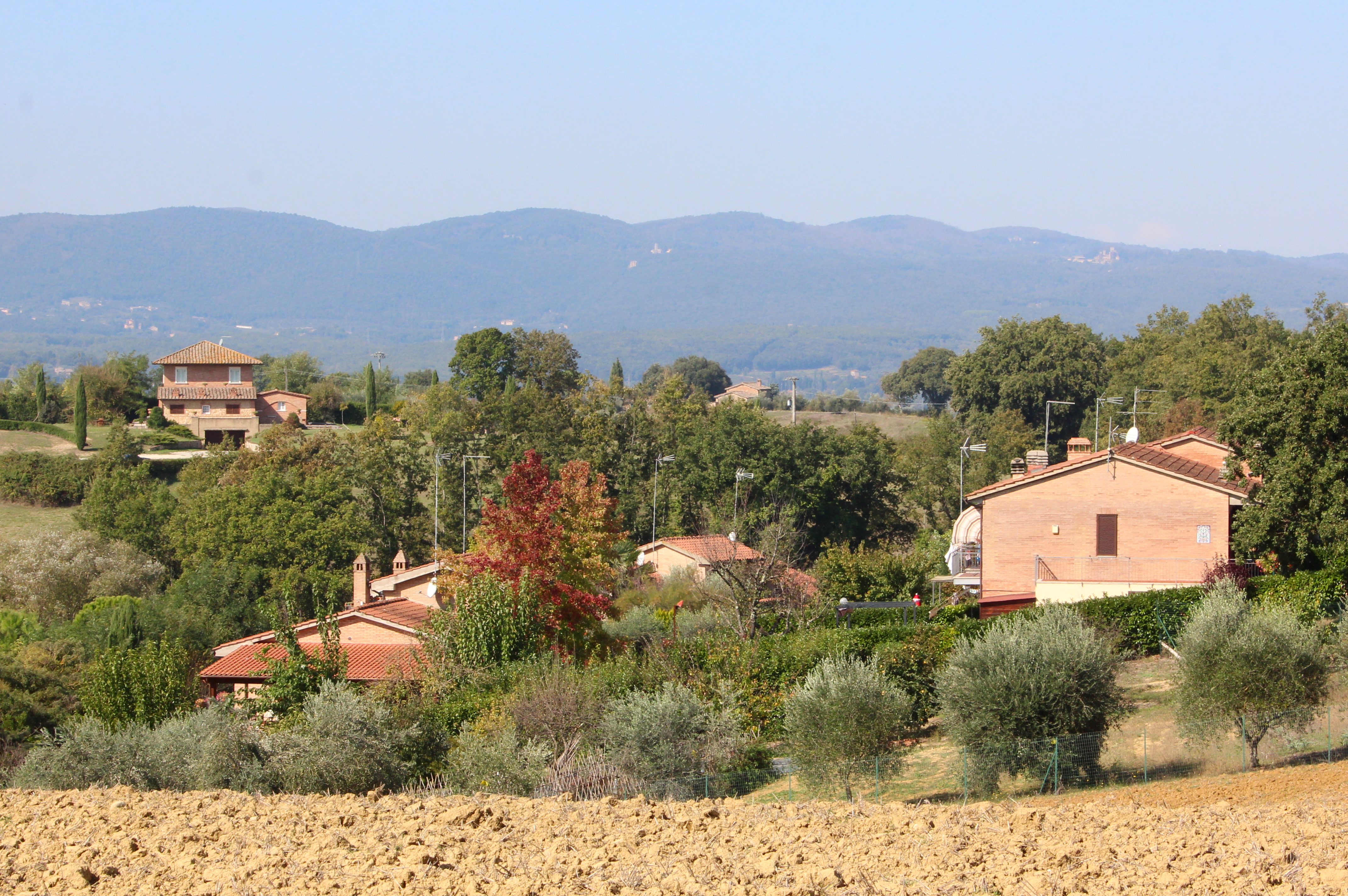 Carpineto, Village in the Territory of Sovicille, Province of Siena, Tuscany, Italy